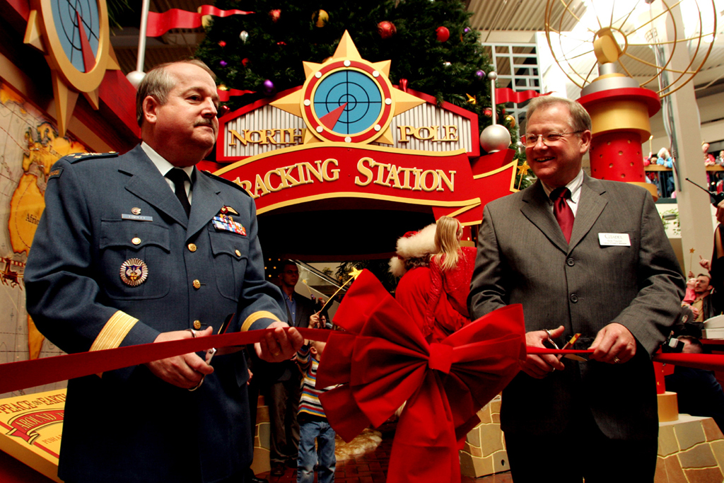 Citadel Mall - Santa Tracking Station Opening on 17 Nov 2005